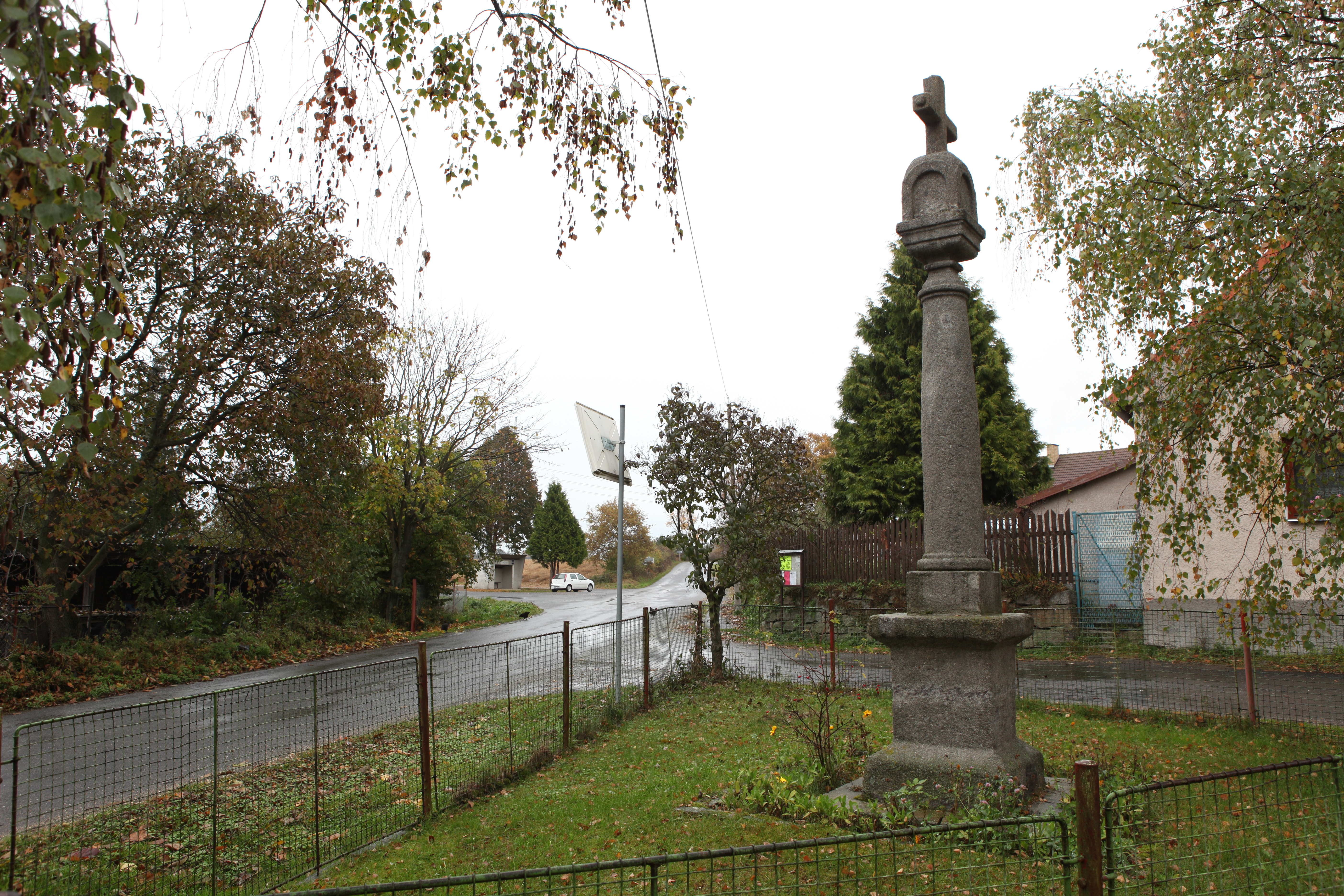 Klimětice (part of Prosenická Lhota, Central Bohemia)